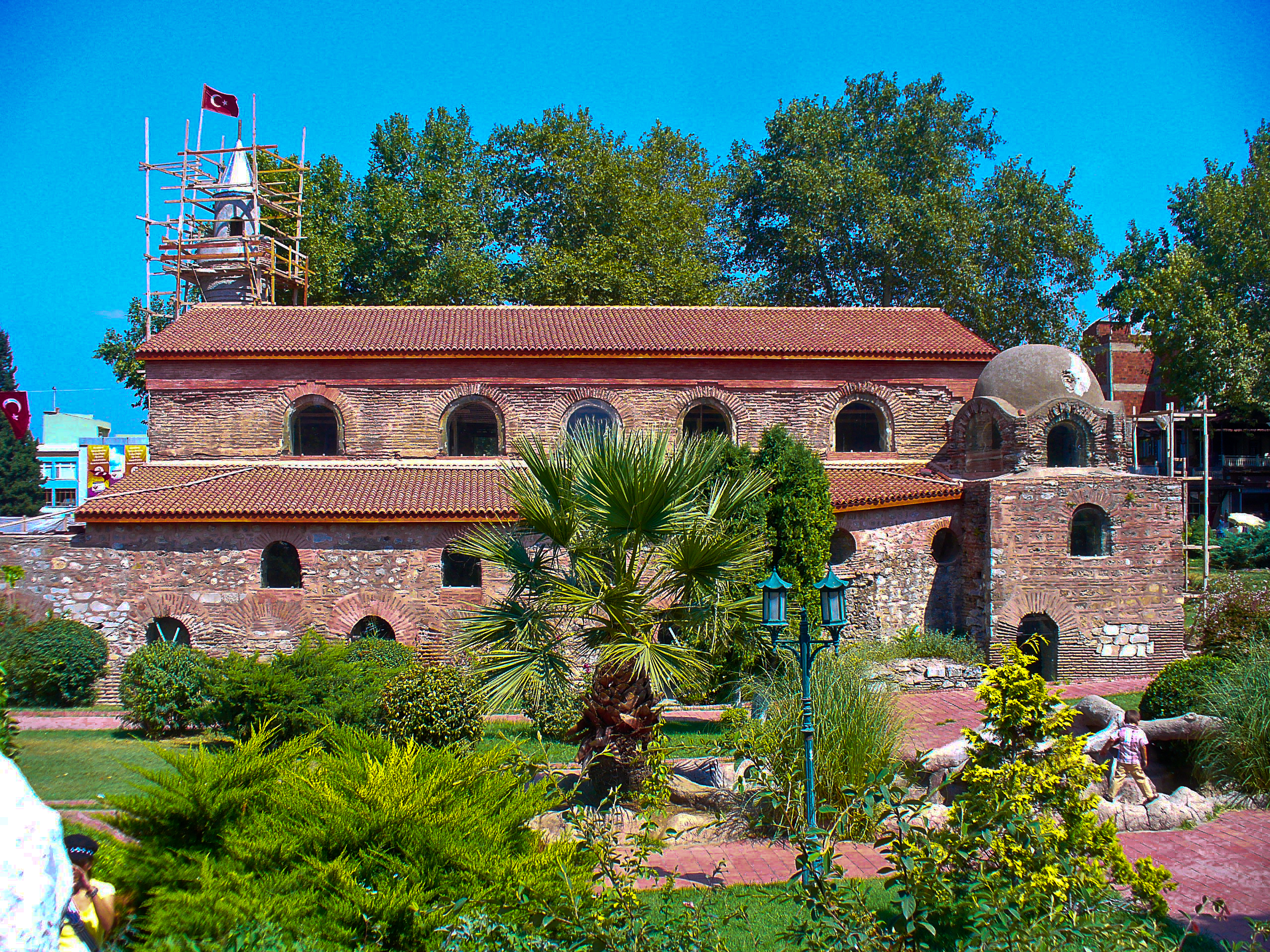 Remains of the Ayasofya in Iznik, as seen from the south.